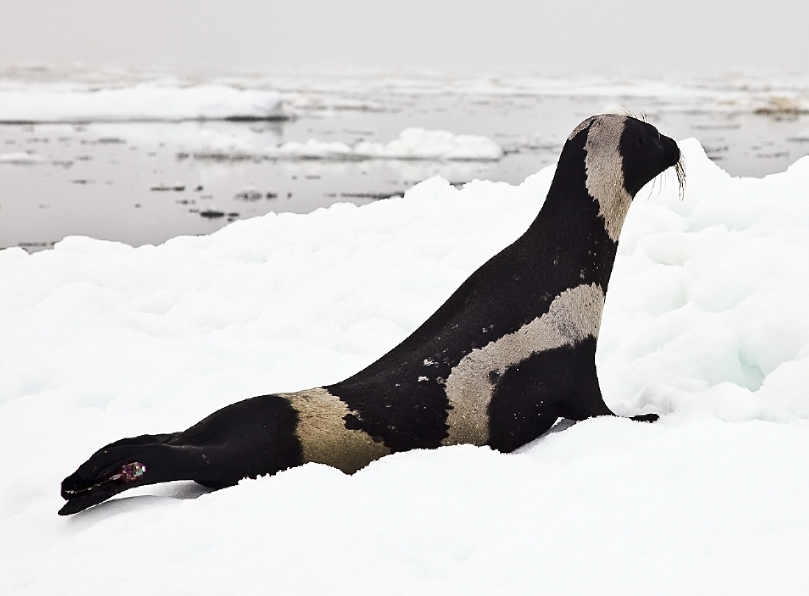 ribbon-seal-male Josh London NOAAedit